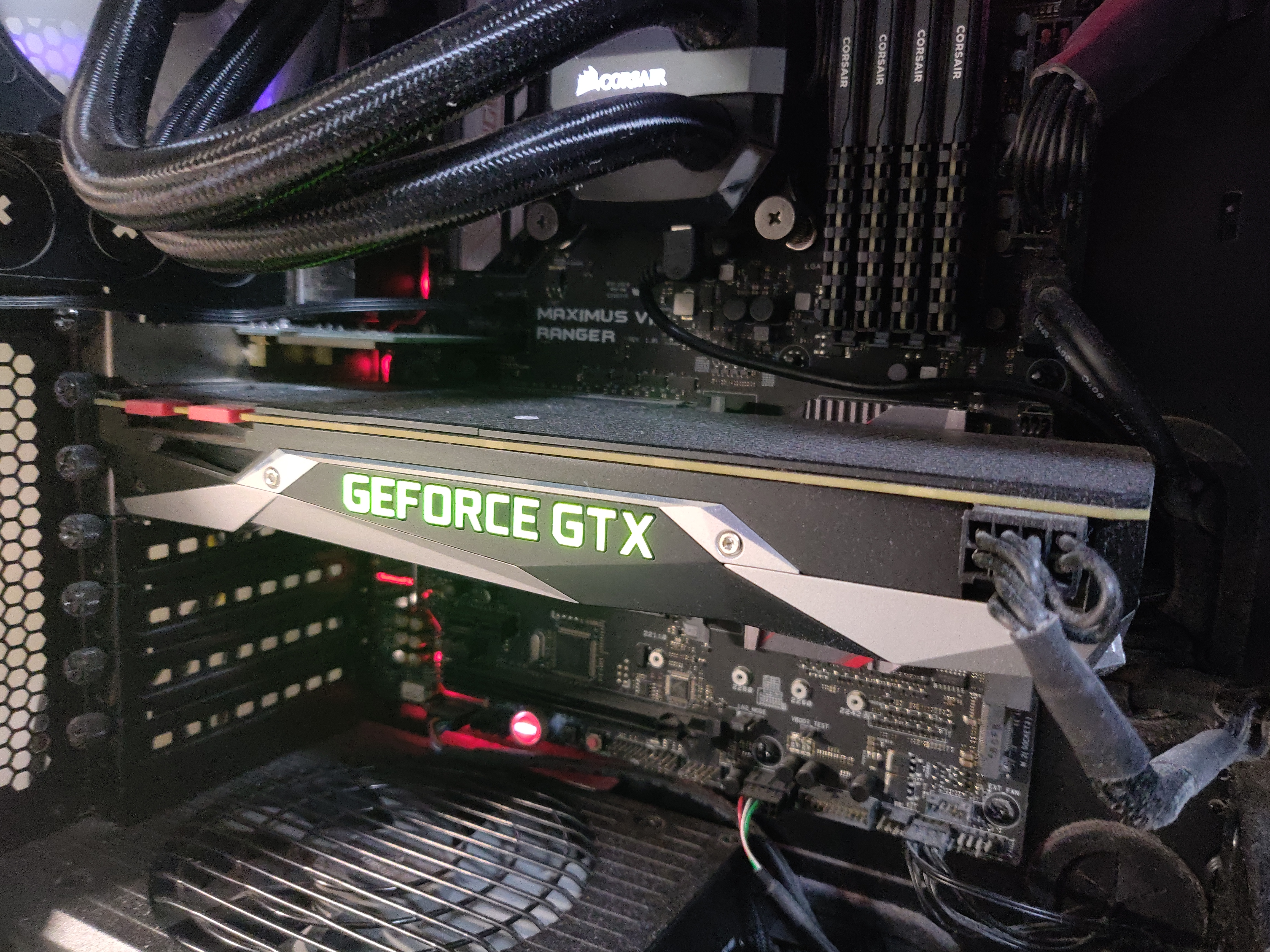 This is an image of a Nvidia GTX1080 Founder's Edition inserted into a motherboard, with the whole thing being housed inside of a computer case.